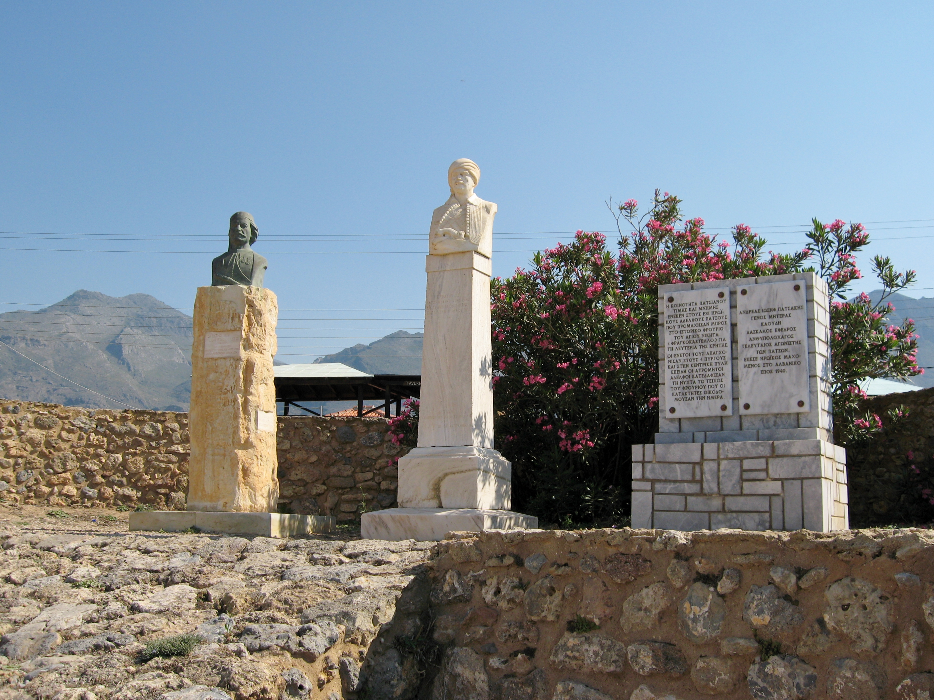 Frangokastello, Sfakia, Nomos Chania, Crete, Greece